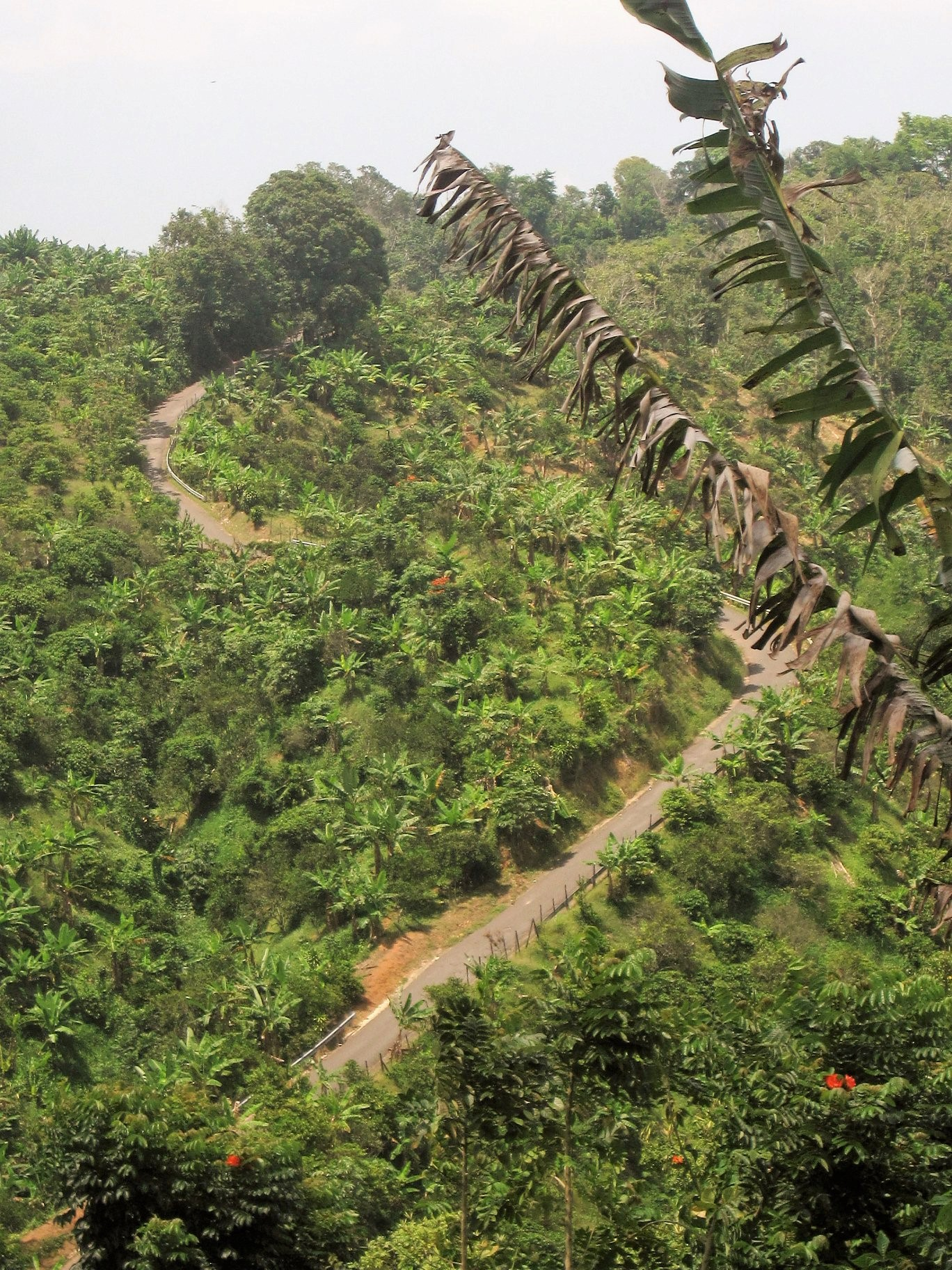 Steep, long, curvy road called Cuesta de Magos as seen from Calabazas barrio in San Sebastián, Puerto Rico